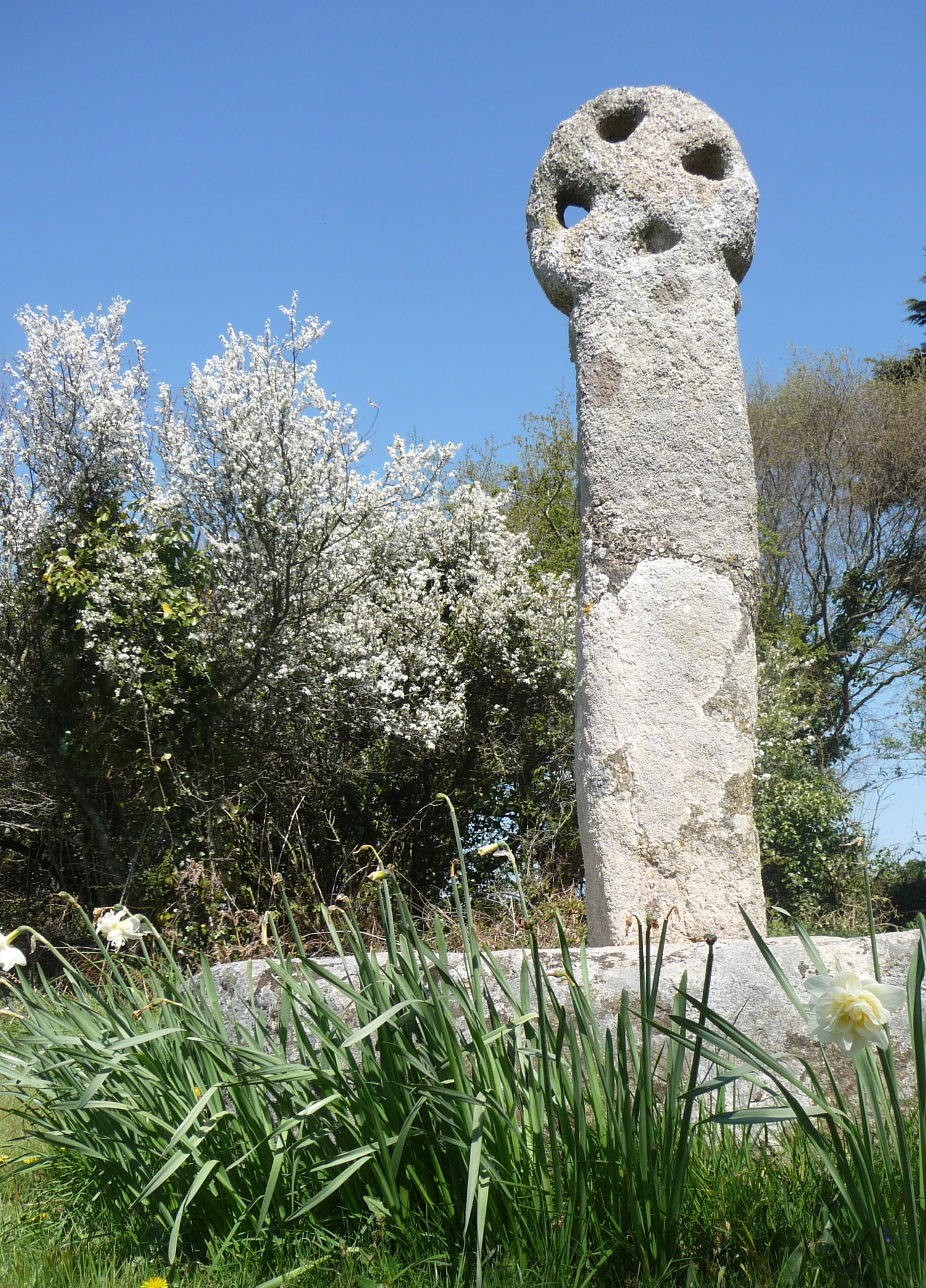 Three Holes Cross a Cornish cross located at a crossroads on the A39 trunk road approximately 2 miles east of Wadebridge, Cornwall, United Kingdom.